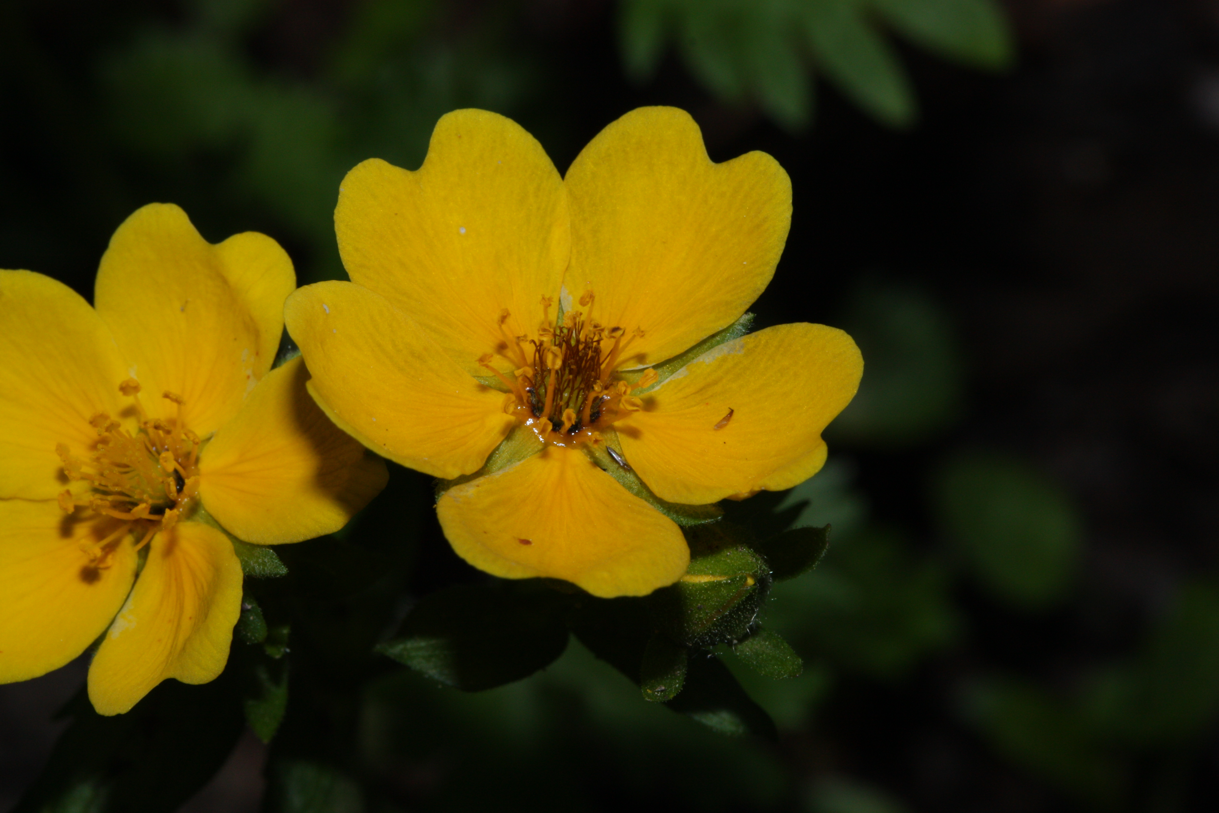 Eschscholtz's Buttercup (Please see File talk:Ranunculus eschscholtzii 7497.JPG for discussion of taxon assignment.)